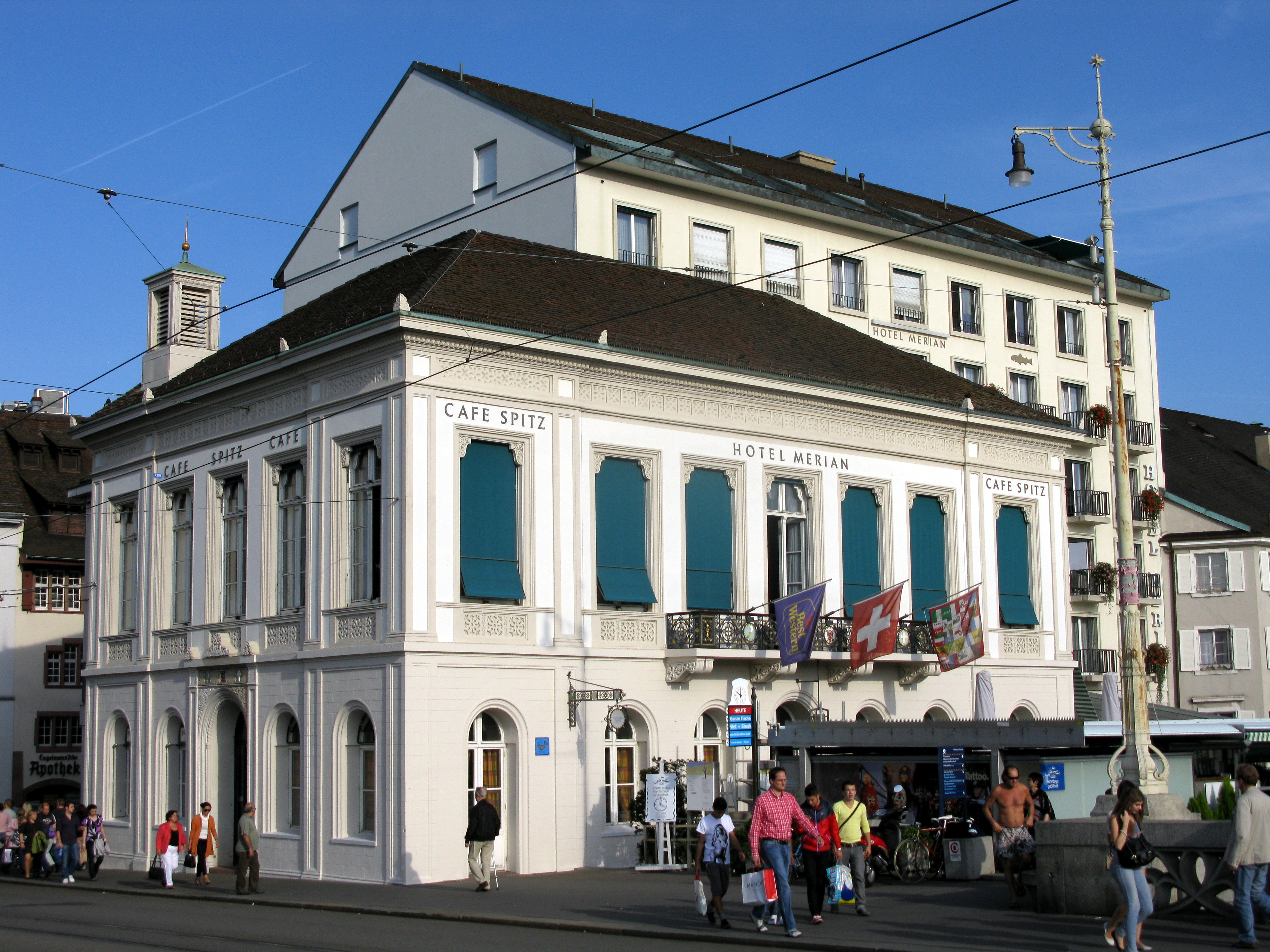 Basel Café Spitz with Hotel Merian